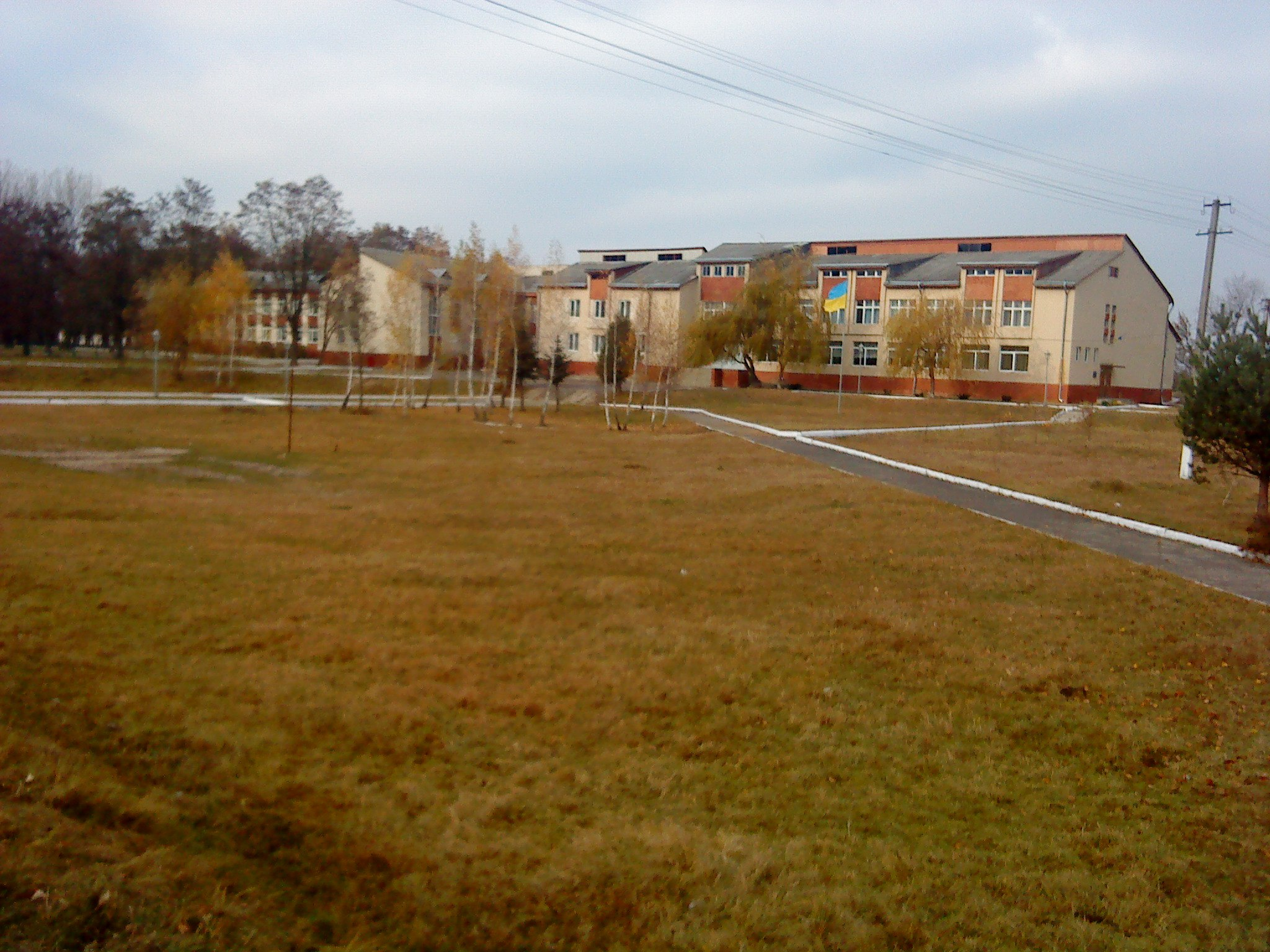 School in the village Zheldets